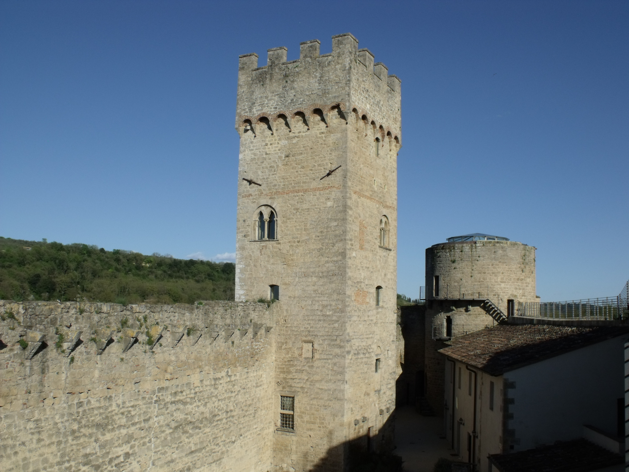 Tower (Mastio) and Torre Tonda (verso Staggia, from Inside) of the Castle in Staggia Senese, Poggibonsi, Province of Siena, Tuscany, Italy